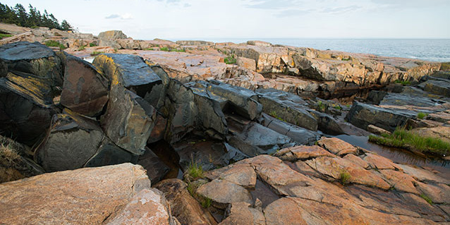 Black intrusive igneous rock at Schoodic Point on the Schoodic Peninsula in Acadia National Park, Maine, United States.